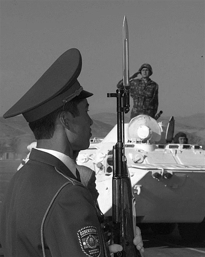 An Uzbek soldier presents arms as a Central Asian Battalion armored personnel carrier rolls by during ceremonies marking the end of CENTRAZBAT '97 Sept. 20 at Chirchik, Uzbekistan. Douglas J. Gillert